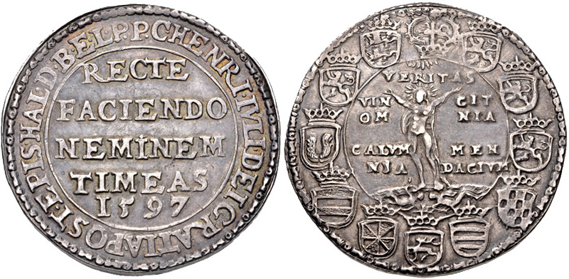 GERMANY, Braunschweig-Wolfenbüttel (Fürstentum). Heinrich Julius. 1589-1613. AR Taler (42mm, 29.12 g, 12h). Wahrheits type. Goslar mint. Dated 1597. Four-line legend and date / Allegory of Truth victorious over Deceit and Lies; all within border of coats-of-arms. Welter 629; Davenport 9091. Good VF, toned.